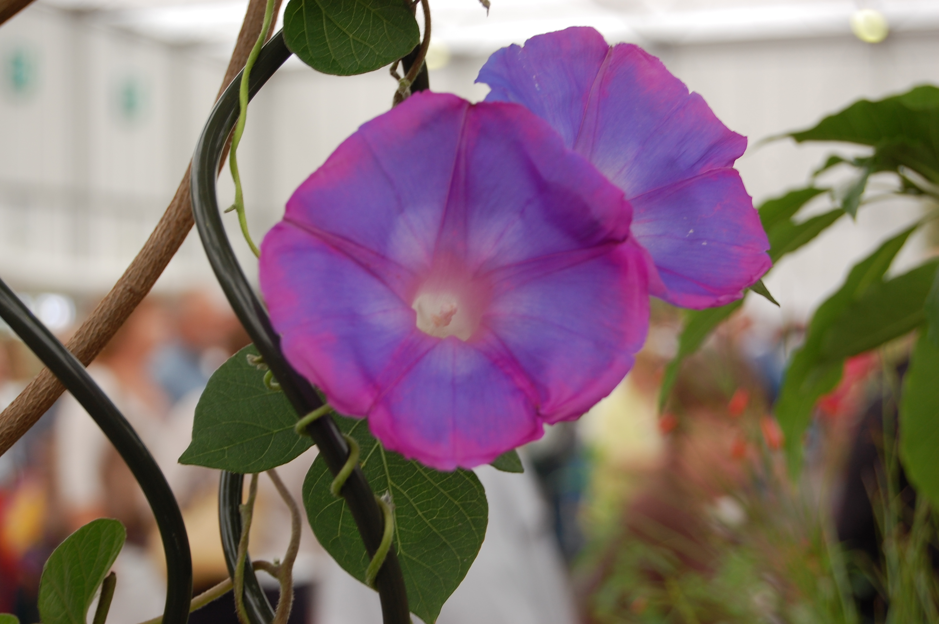 cultivated Ipomoea indica at the BBC Gardeners' World show. Note tendrils.